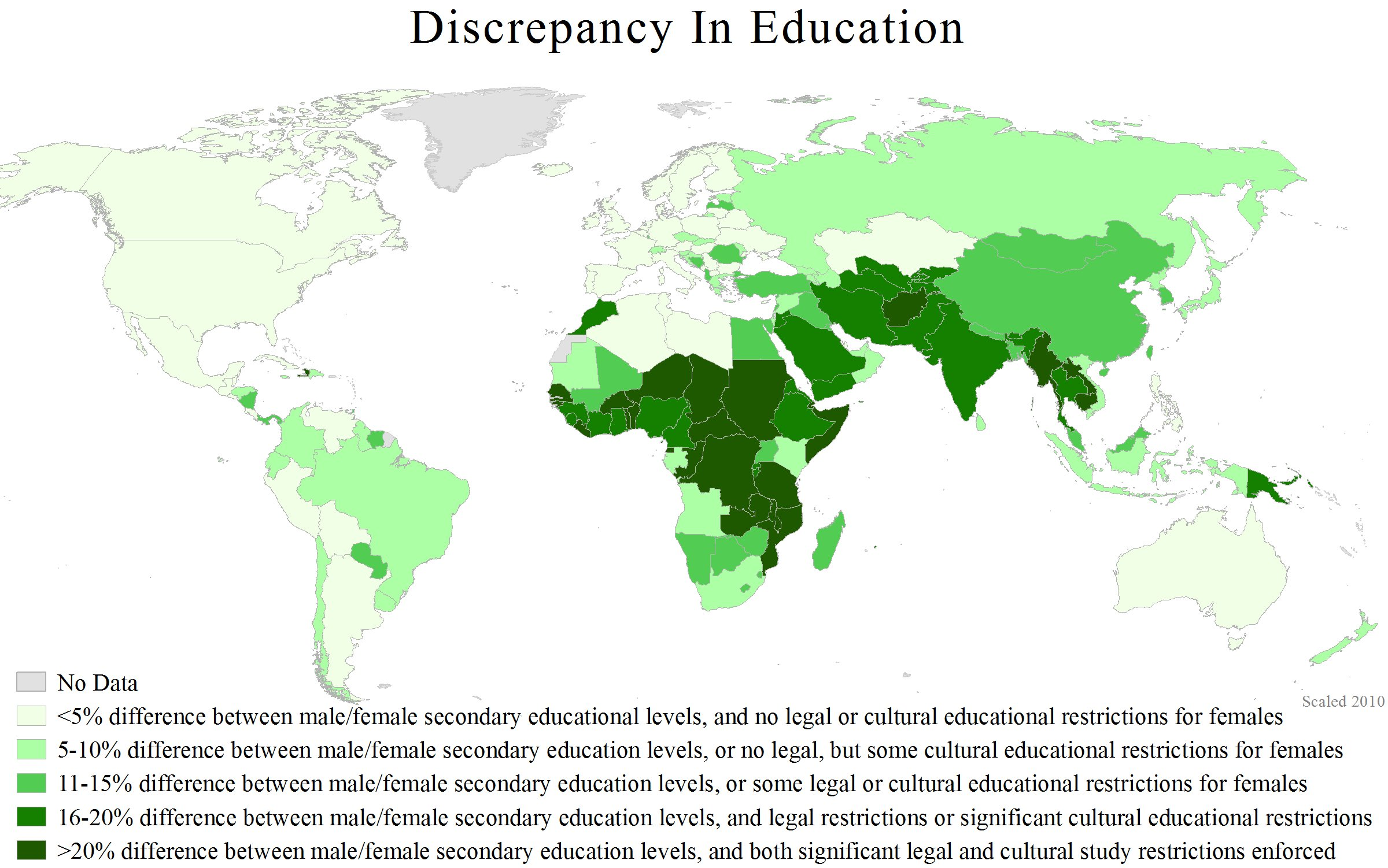 A map of educational gender discrepancies in 2010.